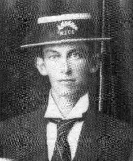 Photograph of Hugh Lusk, extracted from photograph of New Zealand cricket team in Australia 1898-99